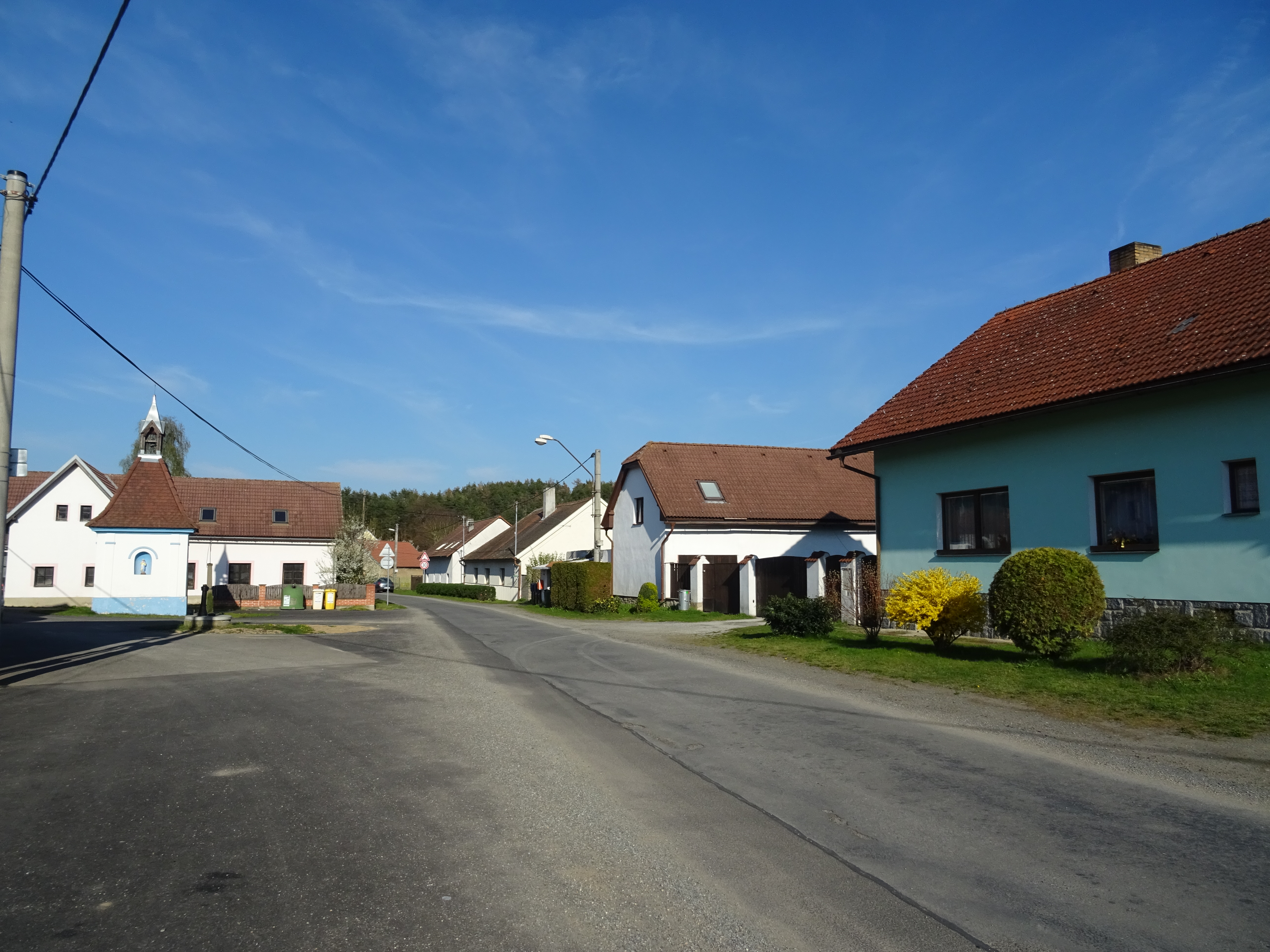 This photograph was created as a part of Wikiexpedition Mladá Vožice, a project supported by Wikimedia Foundation grant.